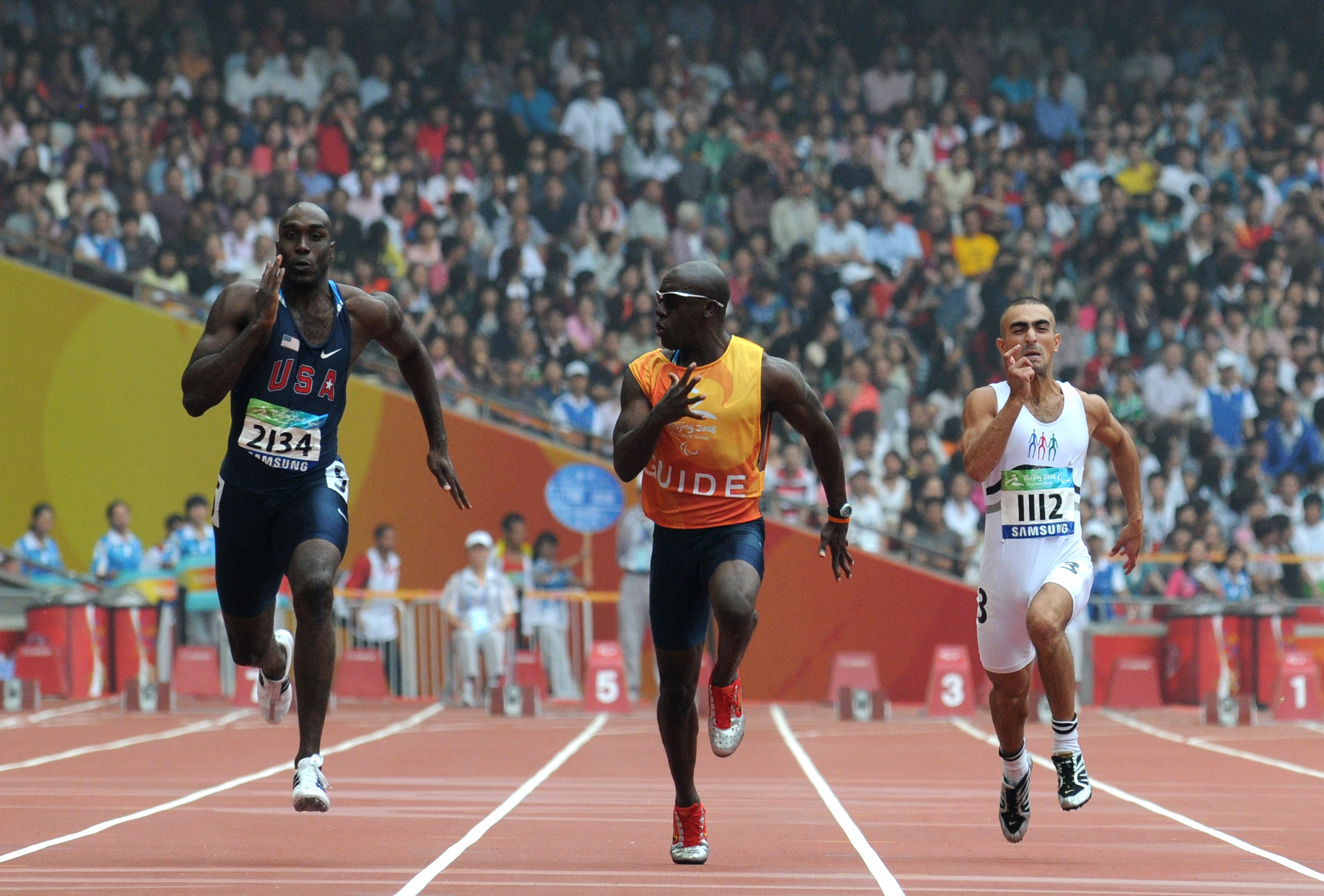 Elchin Muradov at the 2008 Summer Paralympics